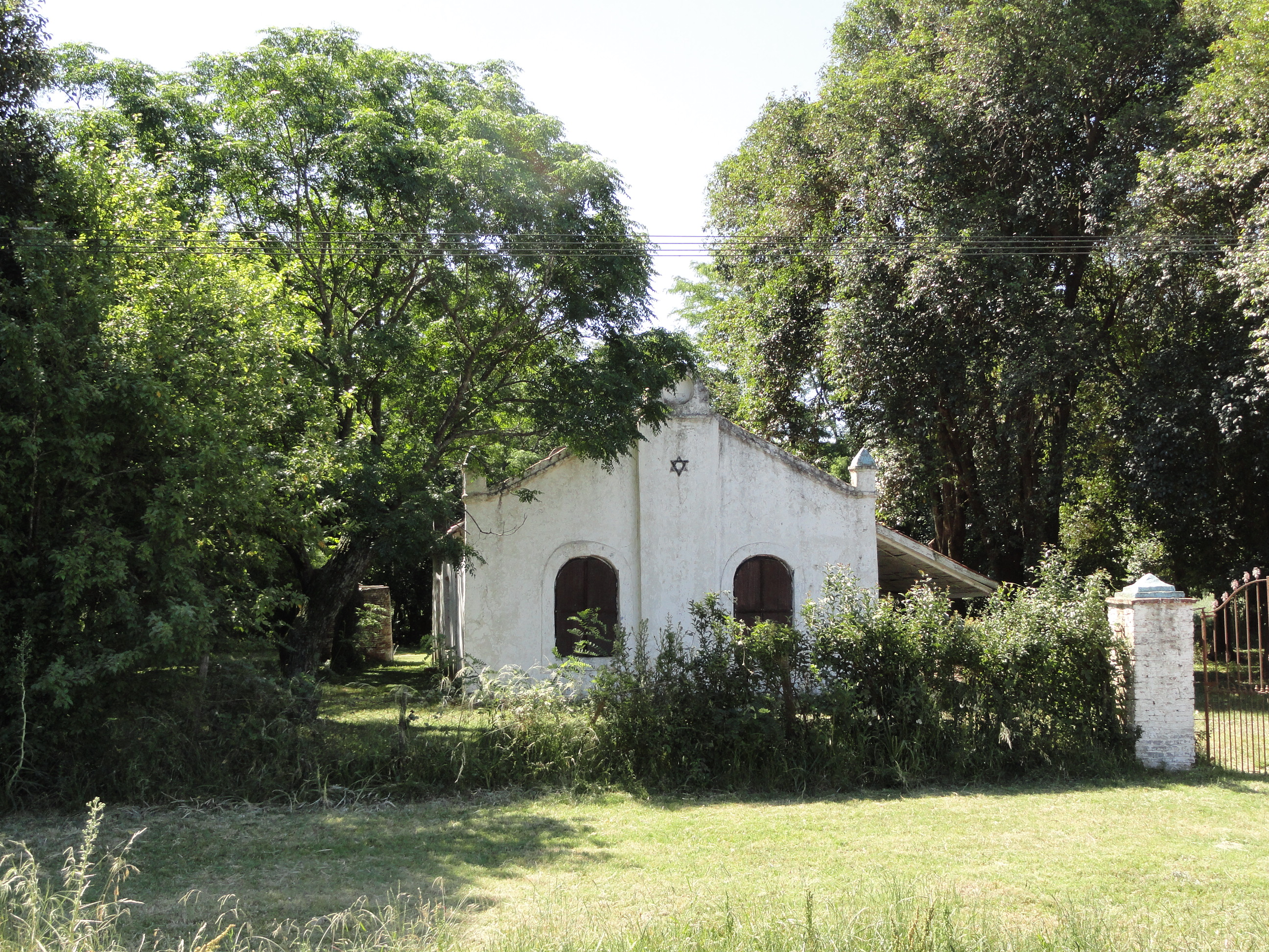 Synagogue of Novibuco in the old Jewish colony of Lucienville in the Entre Rios province in Argentina. General view from the street.